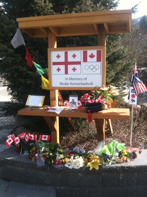 A memorial for Nodar Kumaritashvili in Whistler, British Columbia, Canada.